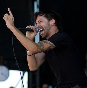 Tim McIlrath of Rise Against performing on July 13, 2006 at Warped Tour 2006 in Marysville, CA.